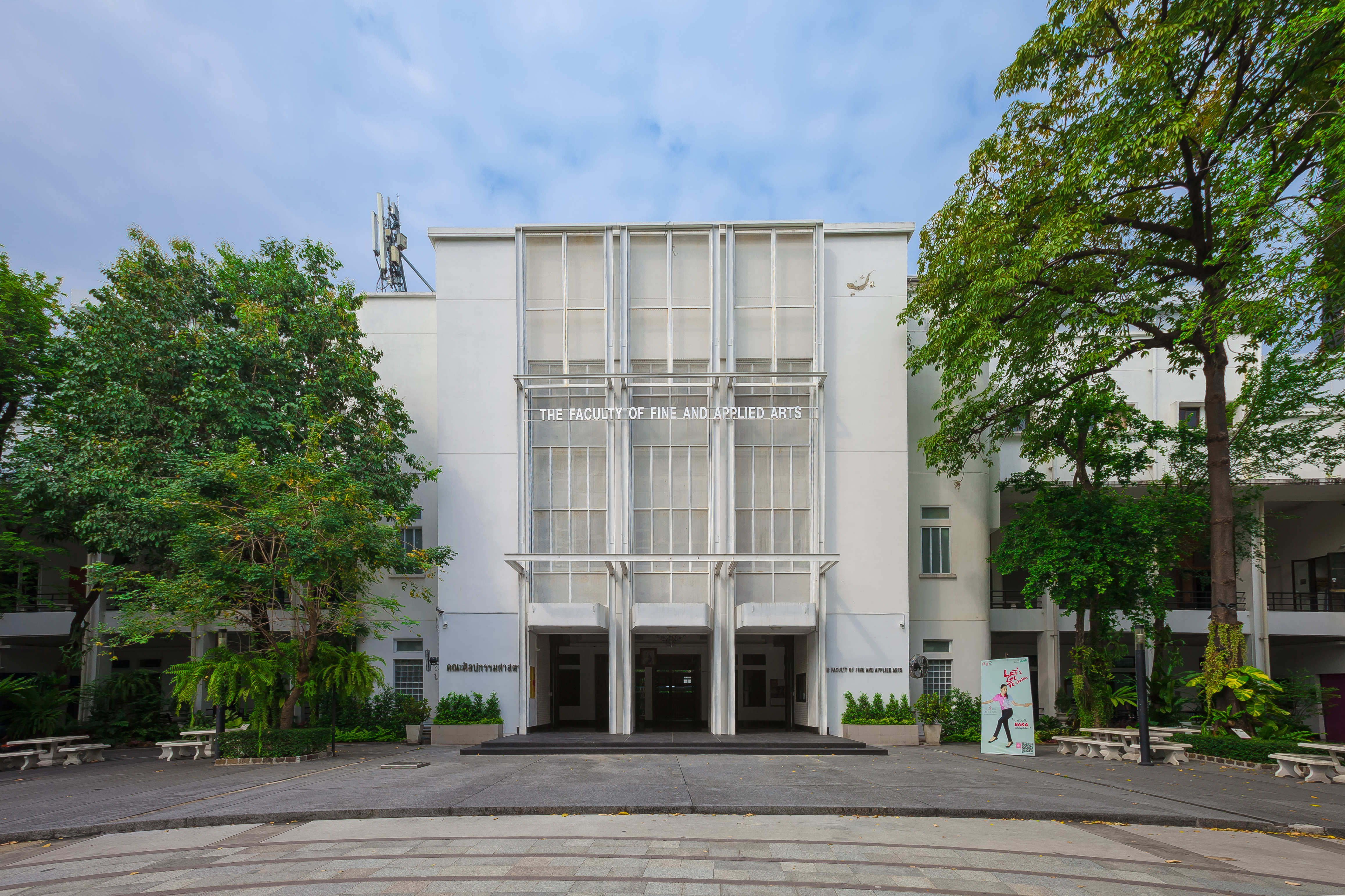 Silpagum 1 Building, Faculty of Fine and Applied Arts, Chulalongkorn University.